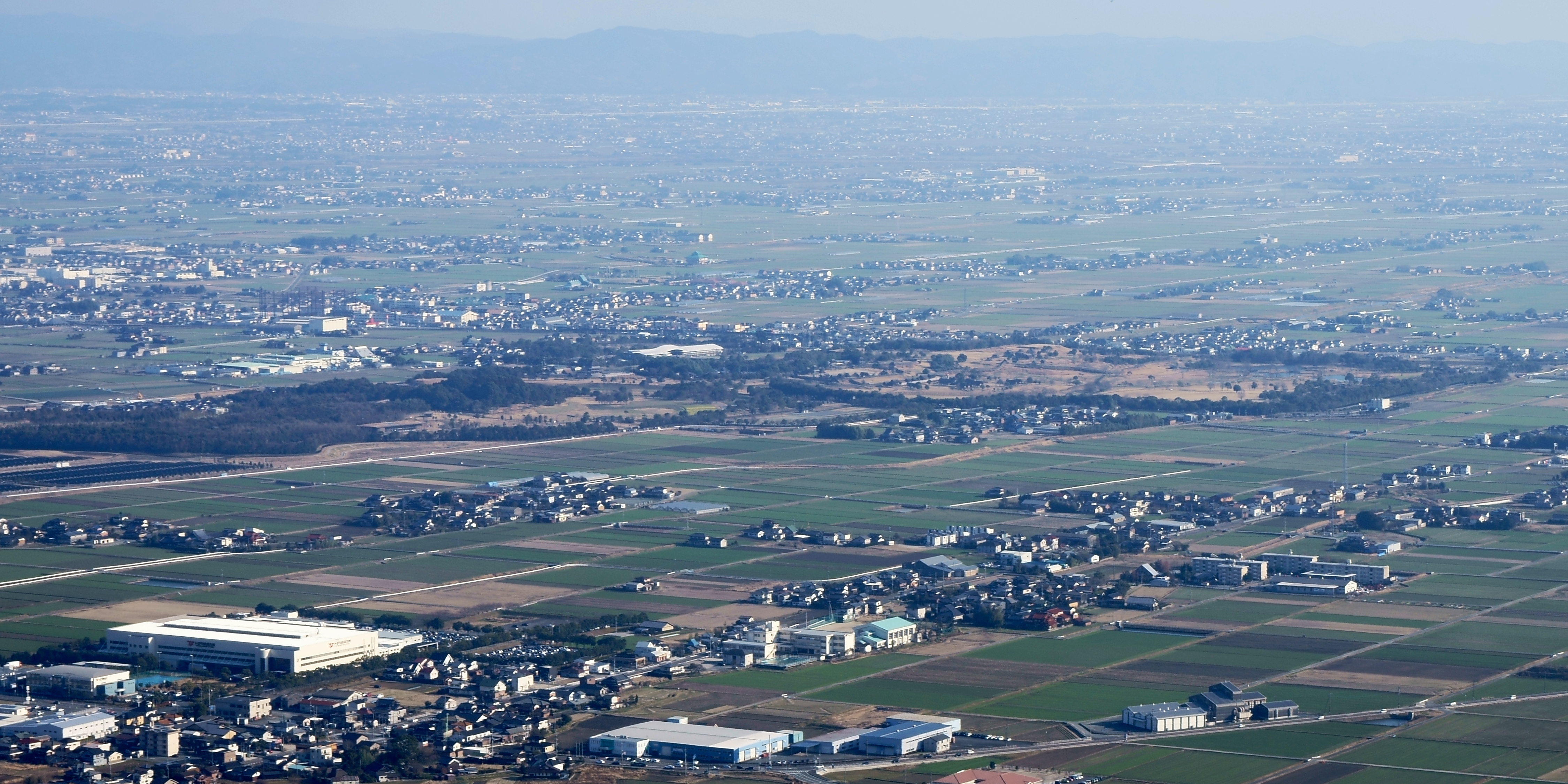 Distant view of Yoshinogari Site, from Mount Kawarake, in Saga prefecture.